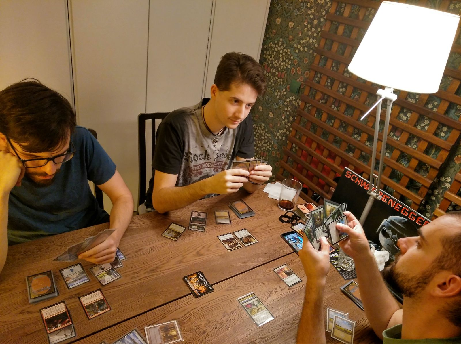 A group of players during a Magic The Gathering draft. (Card boardgame)